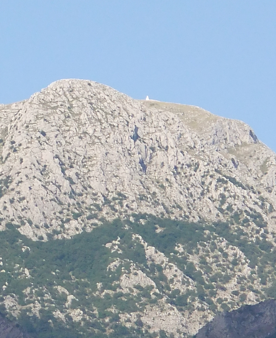 View of the summit of Mount Rumija from Stari Bar, about 5 airline kilometers west of the summit. The Church of the Holy Trinity is visible as a bright spot on the skyline.